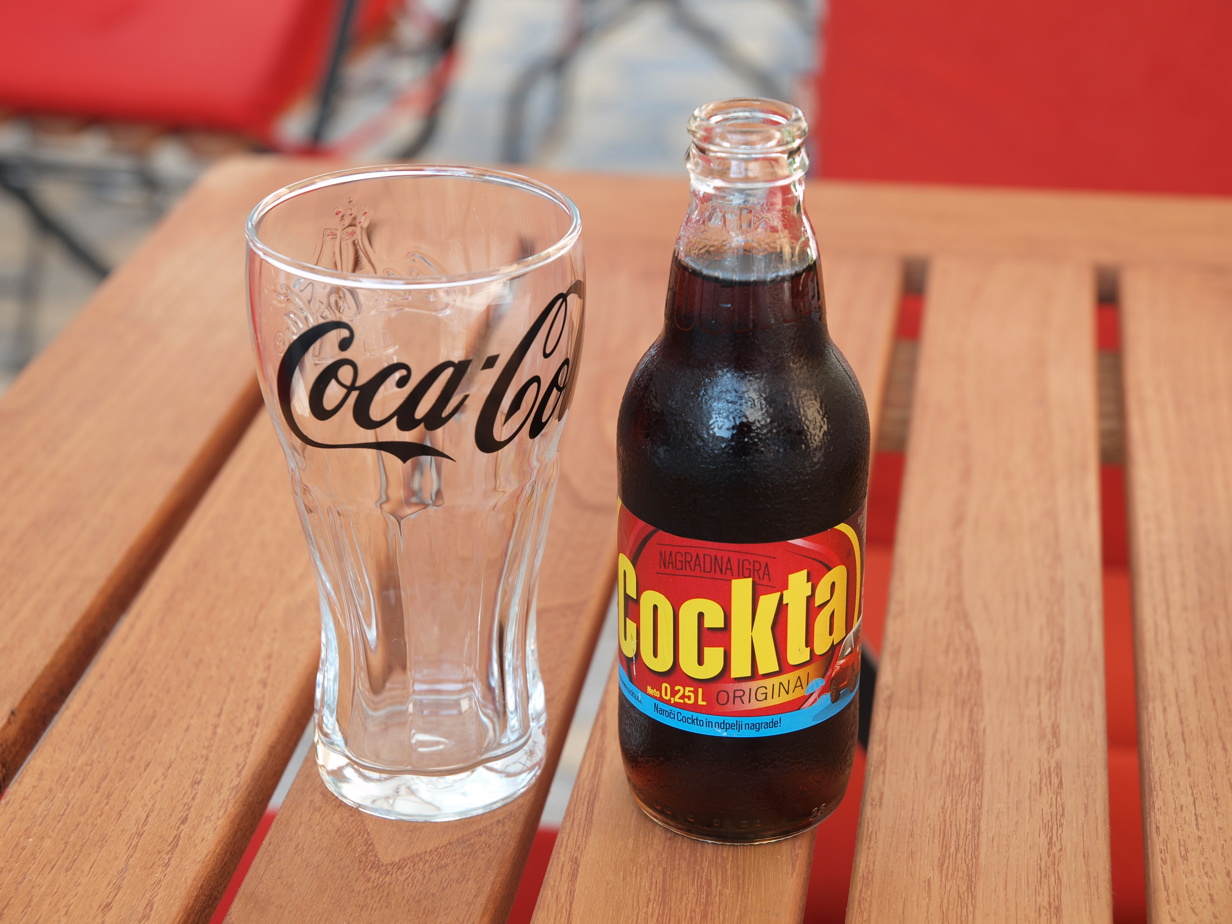 A bottle of Cockta, a Slovenian soft drink, plus a glass for drinking the beverage, photographed at a restaurant in central Ljubljana, Slovenia.